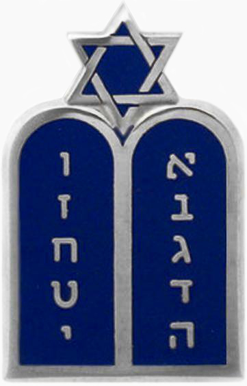 Graphic was extracted from an already existing Wikimedia image that's a compellation of USAF chaplain insignia.